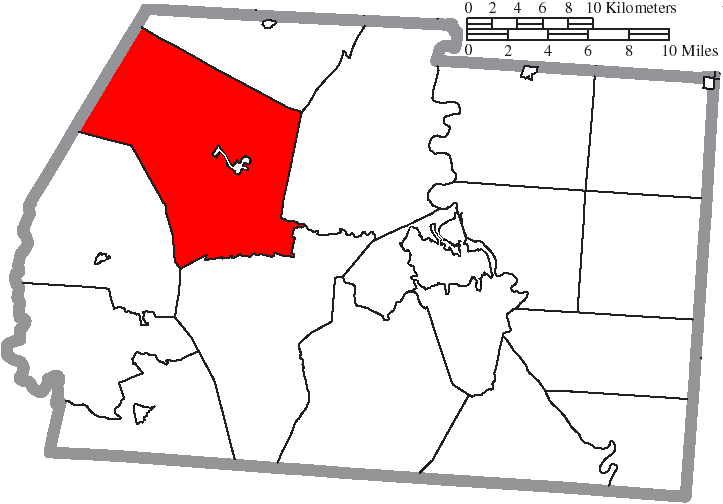 Map of the municipal and township boundaries of Ross County, Ohio, United States, as of the 2000 census, with the location of Concord Township highlighted. Township borders are shown only in unincorporated areas in order to differentiate incorporated and unincorporated areas more clearly.